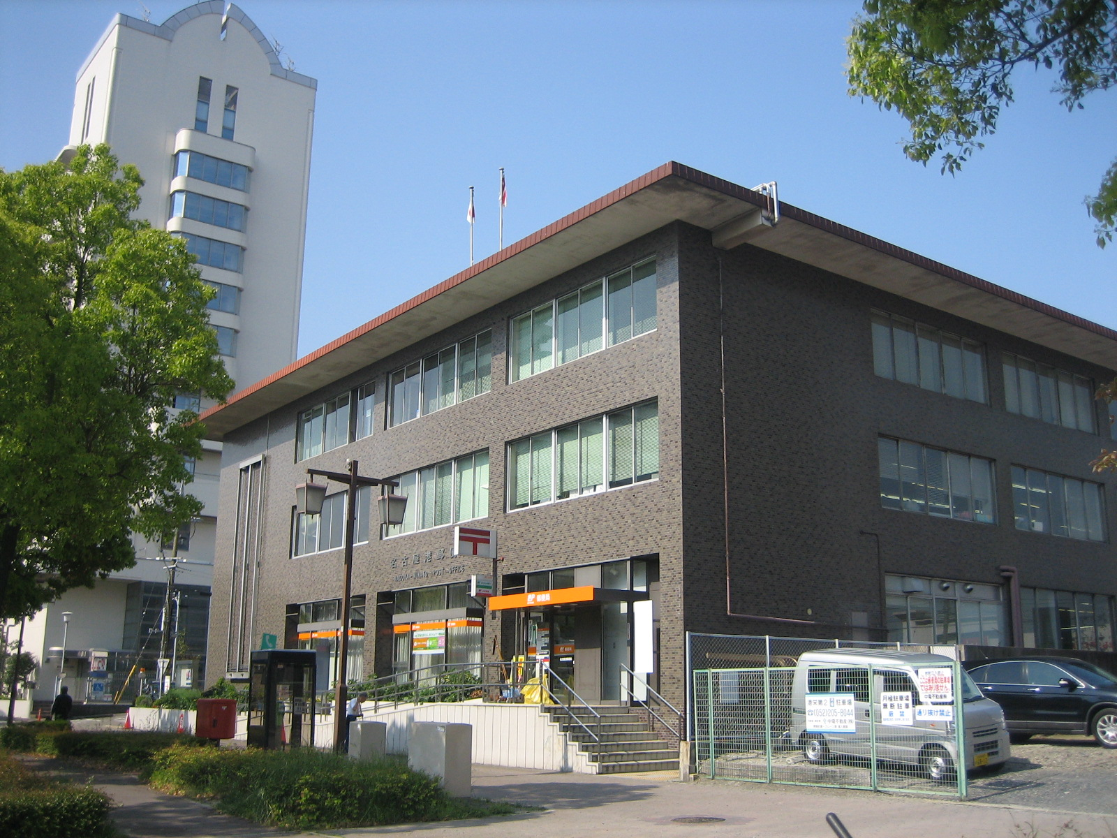 Nagoya-minato post office in Aichi, Japan